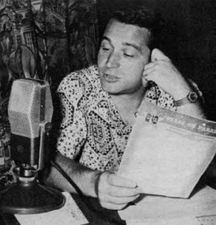 Photo of Perry Como as a guest on the radio program "Guess Who".